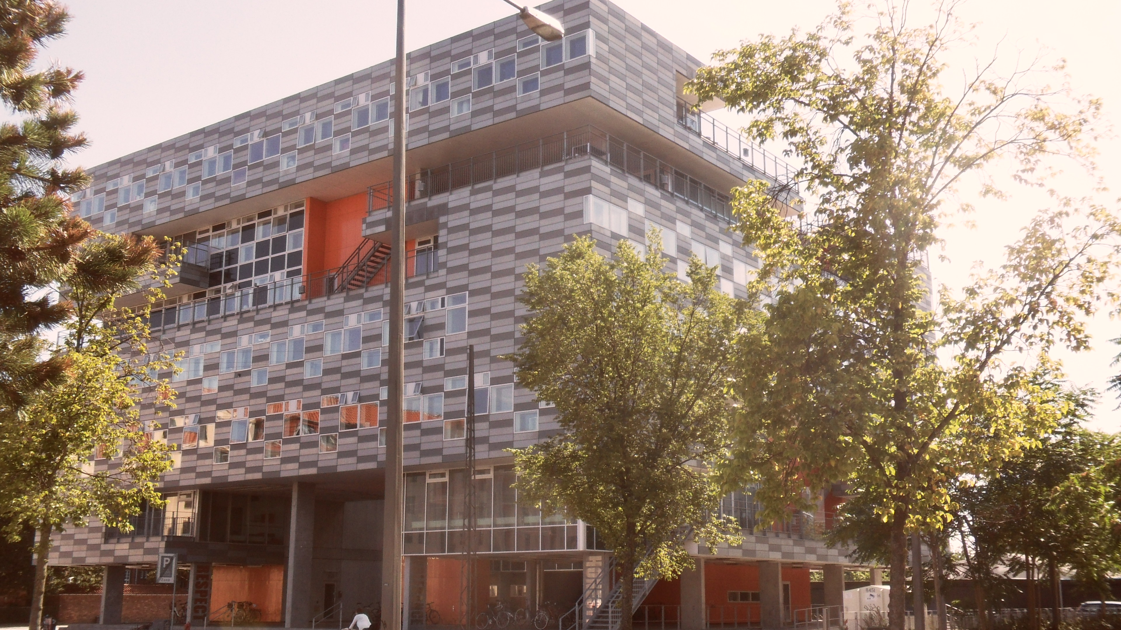 Bikuben Kollegiet Ørestad - picture taken from Njalsgade